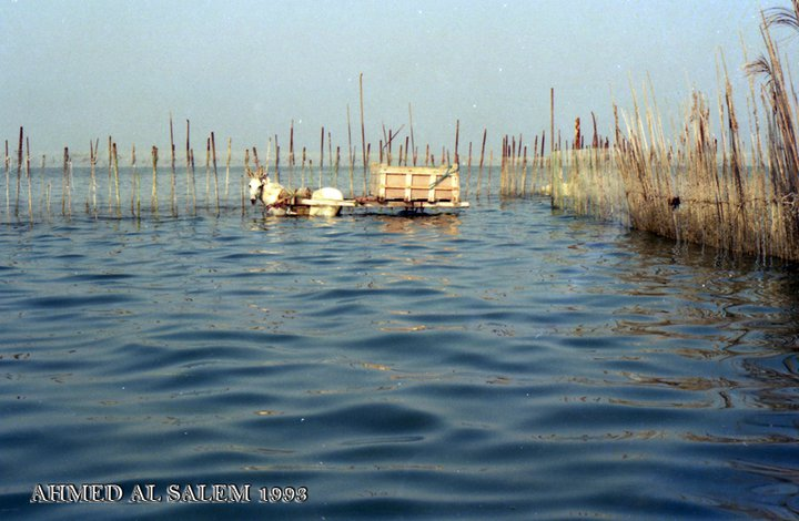 Hozoor (fish trip), Qatif 1993